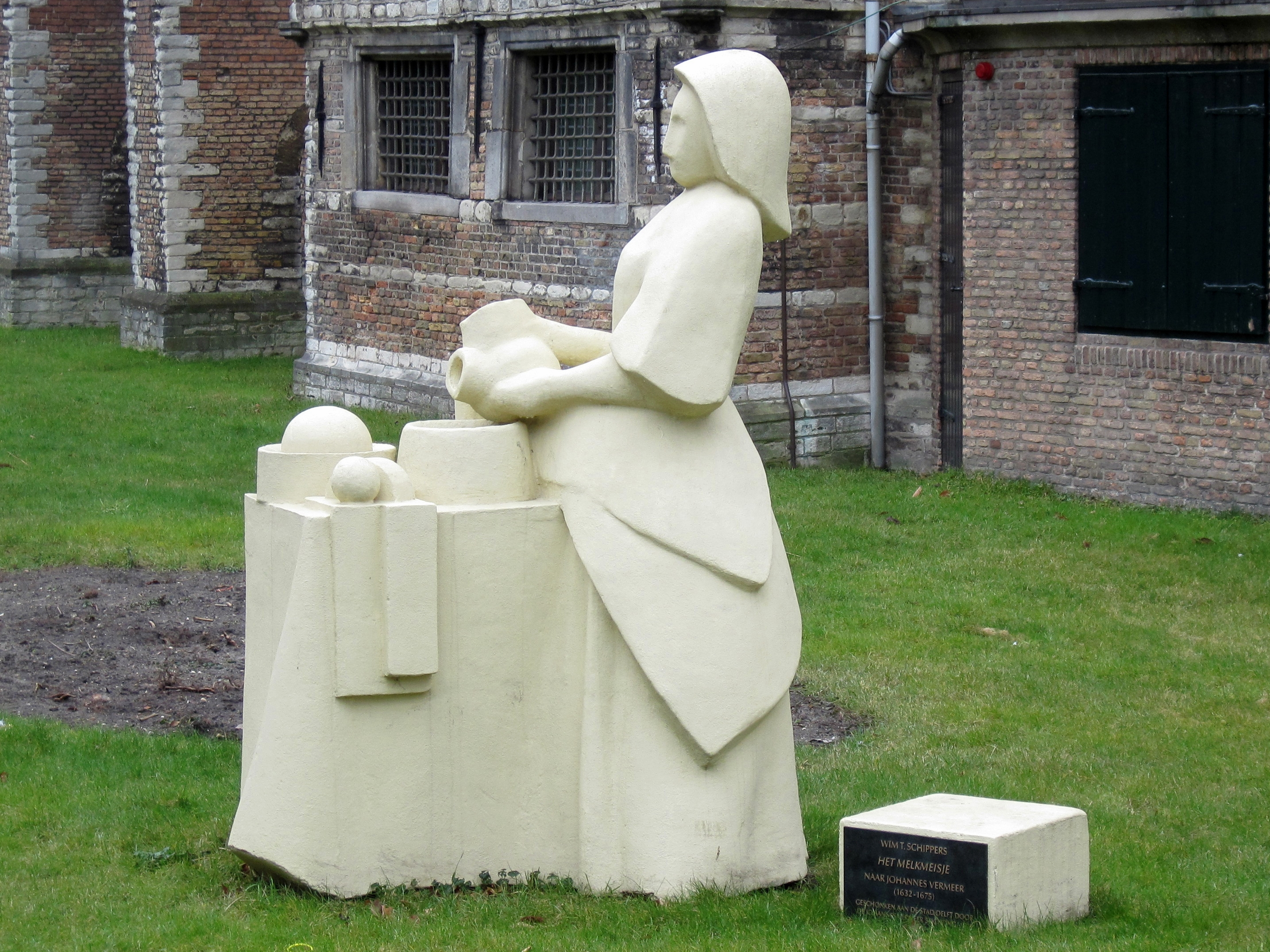 Sculpture "Het melkmeisje" by Wim T. Schippers, Delft, the Netherlands